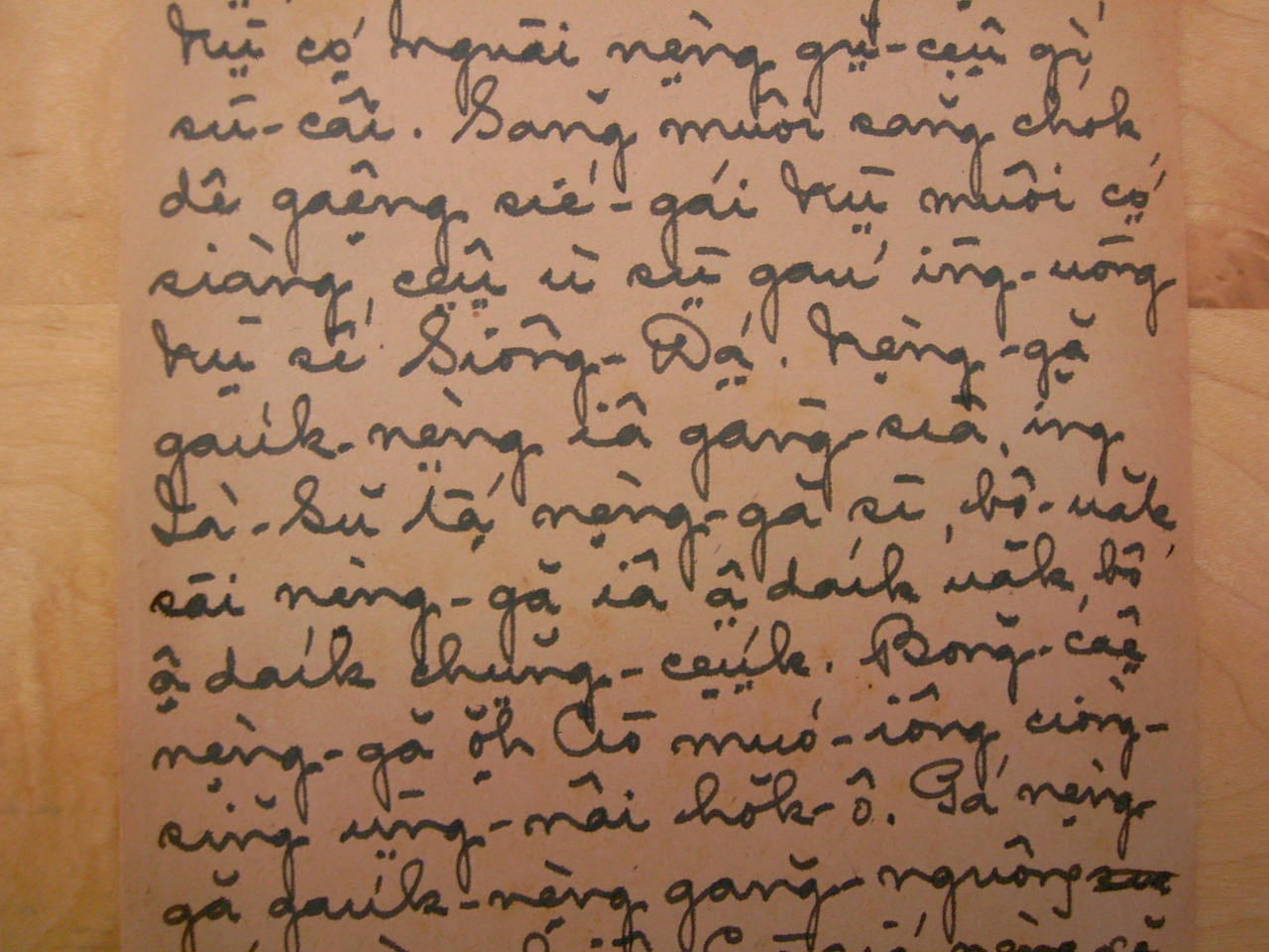 Prayer, Hand-written Foochow Romanized